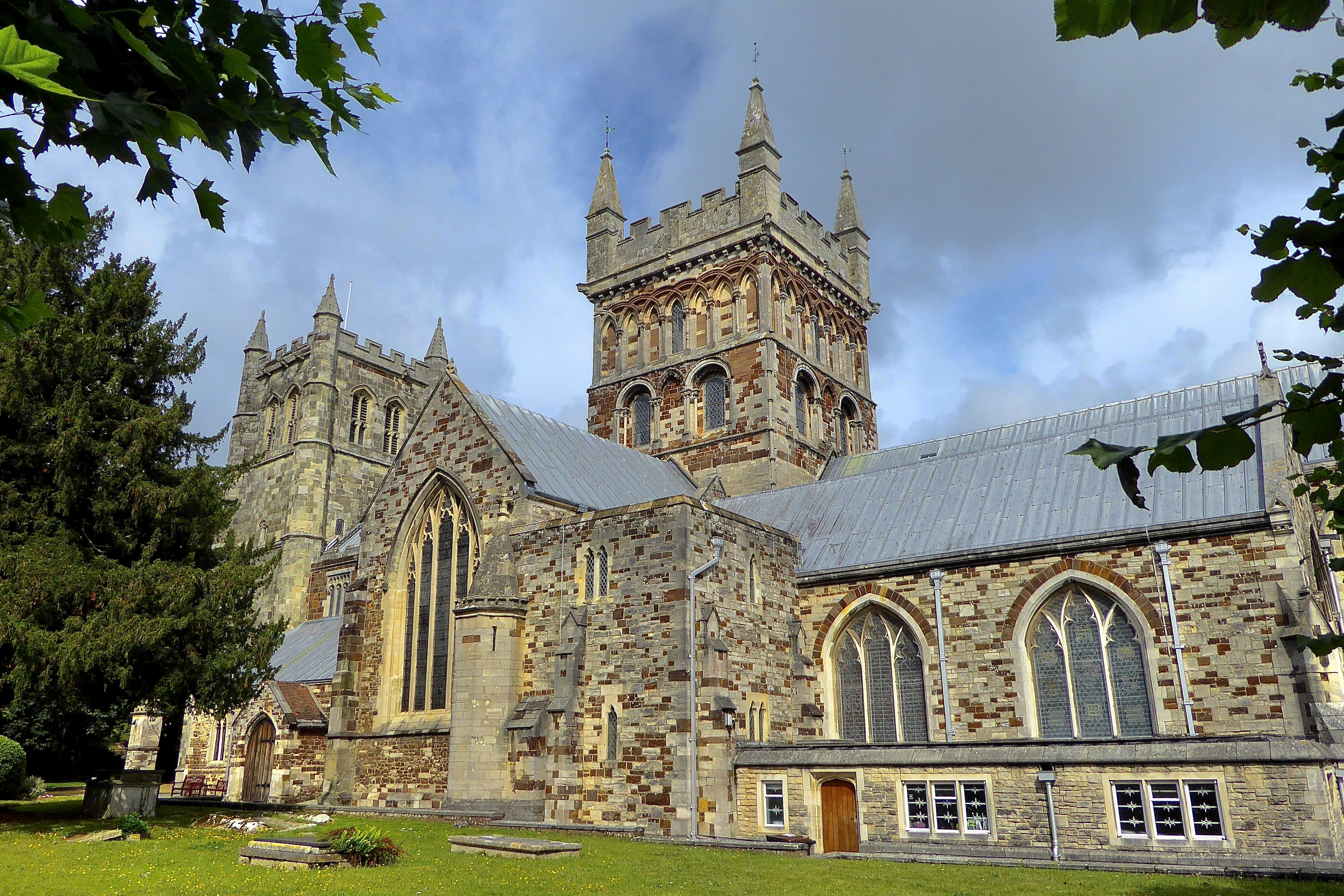 View of the southern side of Saint Cuthburga's Church, Wimborne Minster, Dorset.